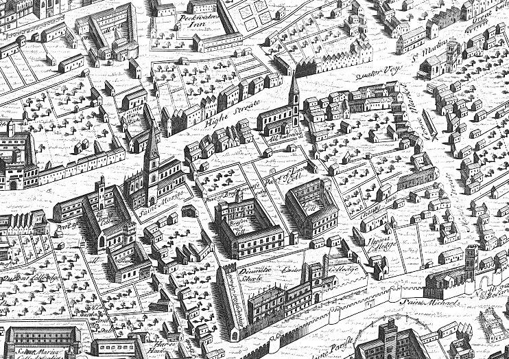 Part of Ralph Agas's map of Oxford (1578). North is at the bottom.